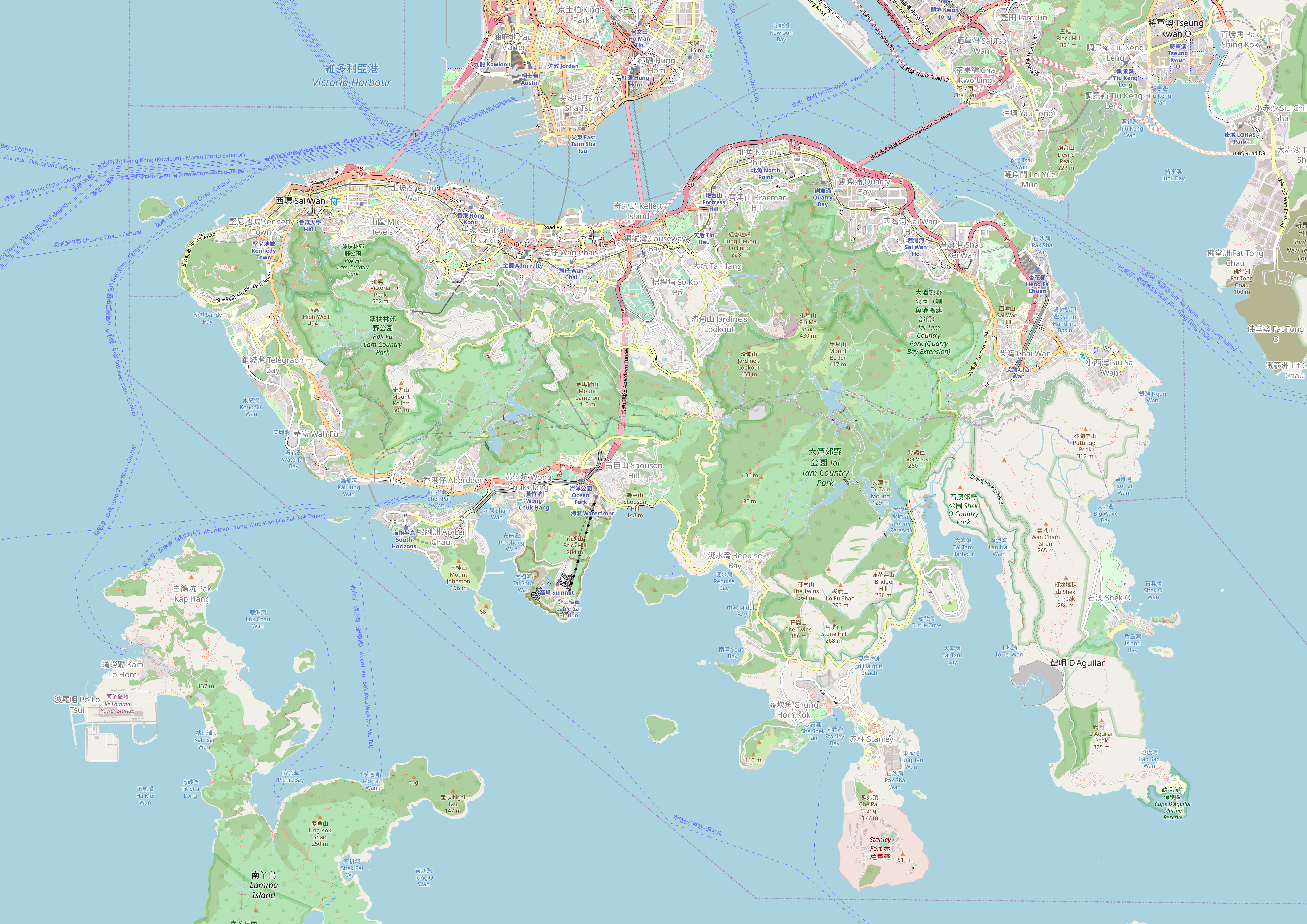 This map may be incomplete, and may contain errors. Don't rely solely on it for navigation.